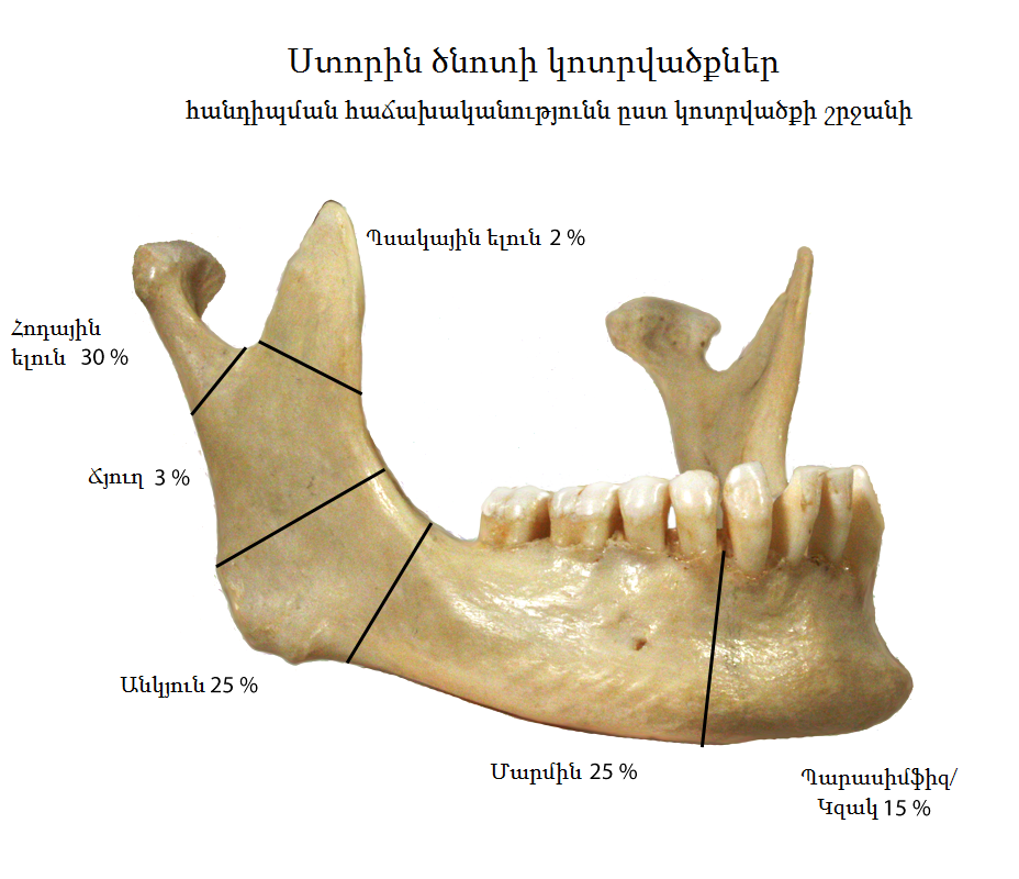 Ստորին ծնոտի կոտրվածքներ